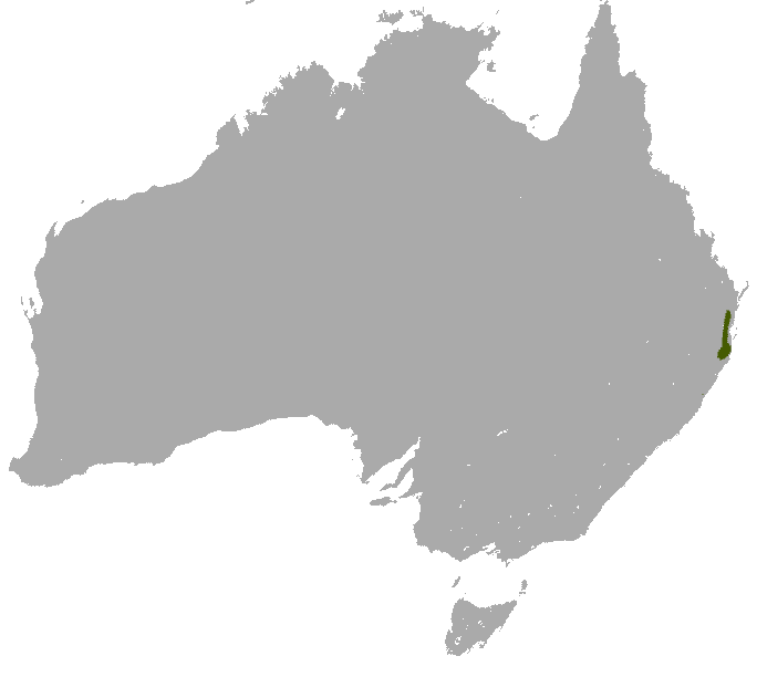 Subtropical Antechinus (Antechinus subtropicus) range